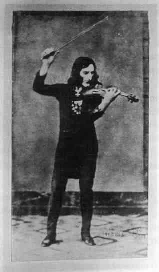 Daguerreotype of Niccolo Paganini